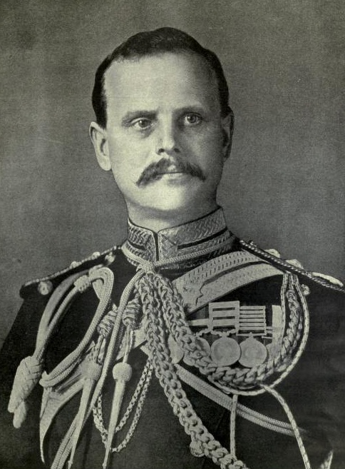 Sir W. R. Birdwood, 1915.